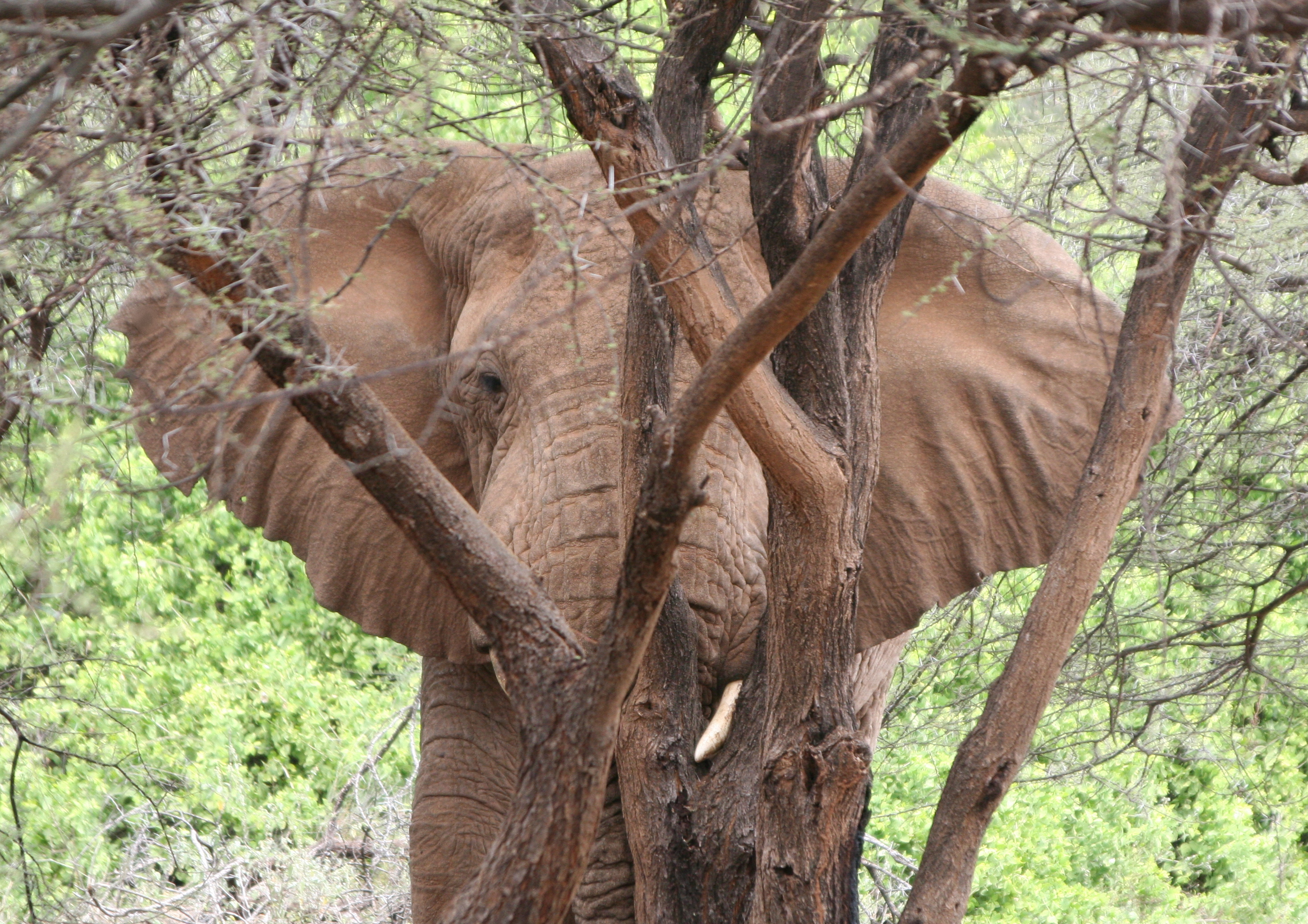 An African Elephant resting his head on a tree trunk, Samburu National Reserve, Kenya.